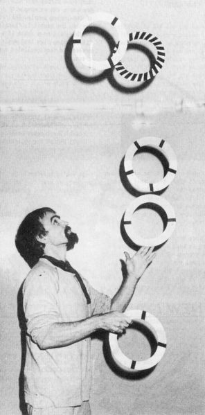 Toby Philpott, future Jabba the Hutt puppeteer, performing his juggling.